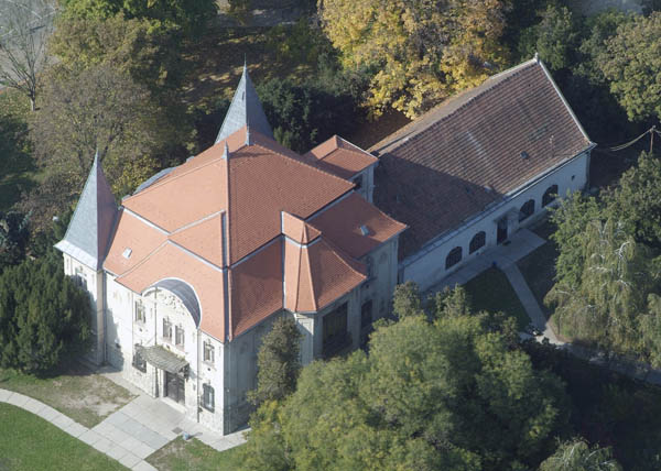 Pécel, Hungary, aerial photography